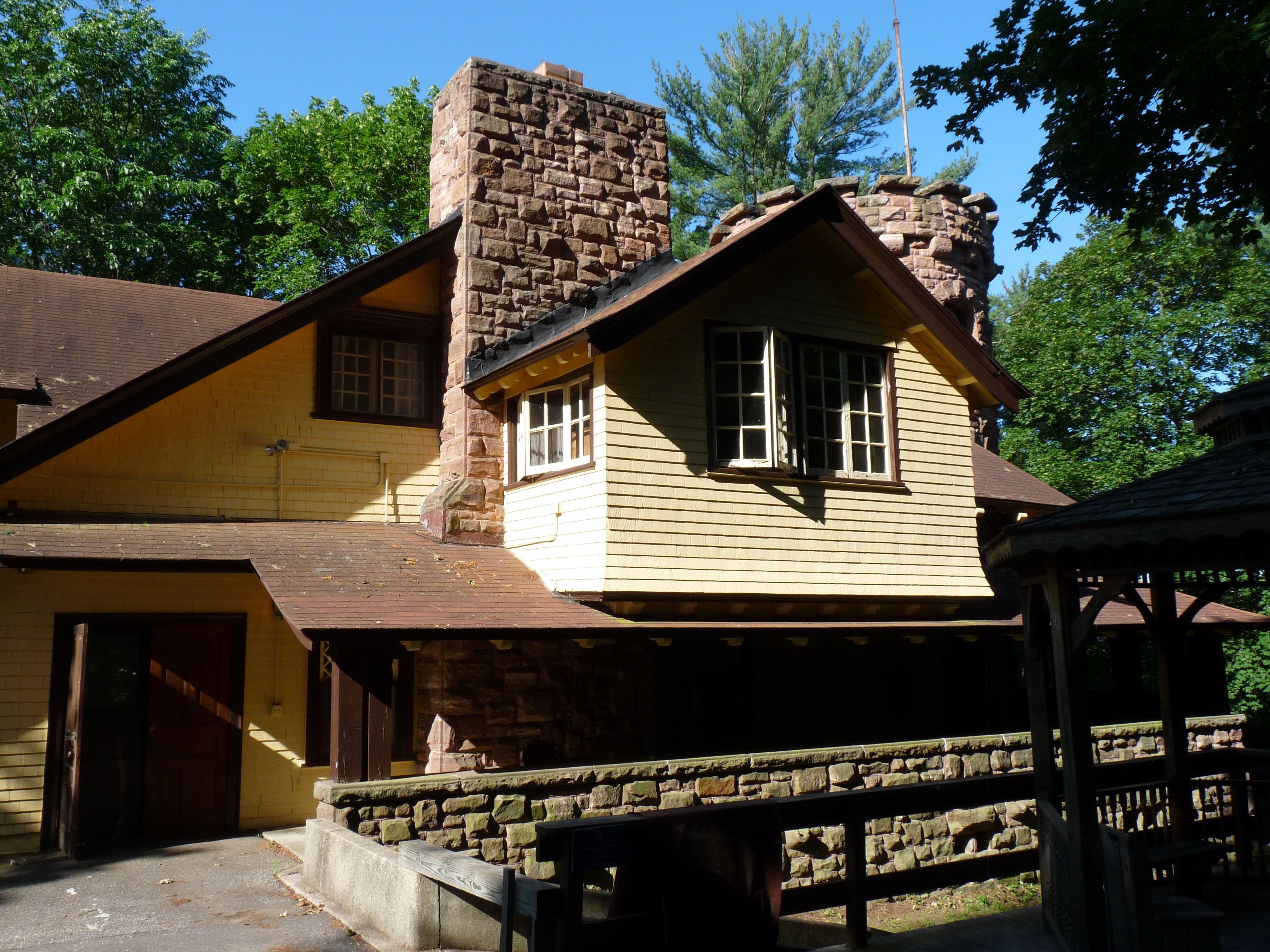 The Horace A. J. Upham House was built in 1899, a summer home with a turret on a hill near Wisconsin Dells, for Milwaukee lawyer Upham. In 1938 the Uphams donated the property to the predecessor of Wisconsin Easter Seals, and it's now used as Camp Wawbeek, a summer camp for children with disabilities. The house is listed on the National Register of Historic Places.